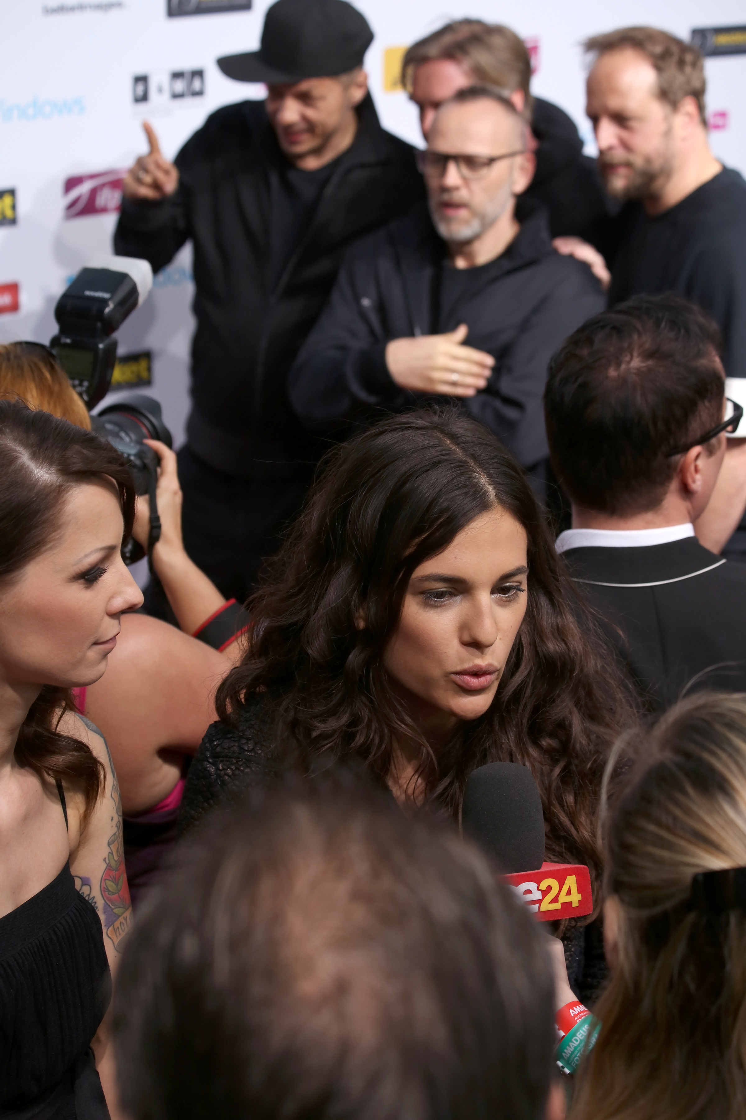 Anna F. (r.) and Christina Stürmer, Die Fantastischen Vier in the background, at the Amadeus Austrian Music Award 2014 at Volkstheater in Vienna